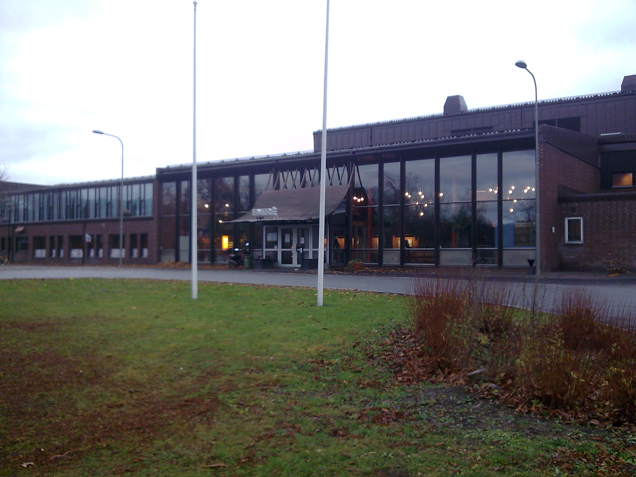 Farstahallen in Farsta, Stockholm, Sweden. This building were also used at the central place in TV4 Swedens popular tv-series "Tre Kronor".